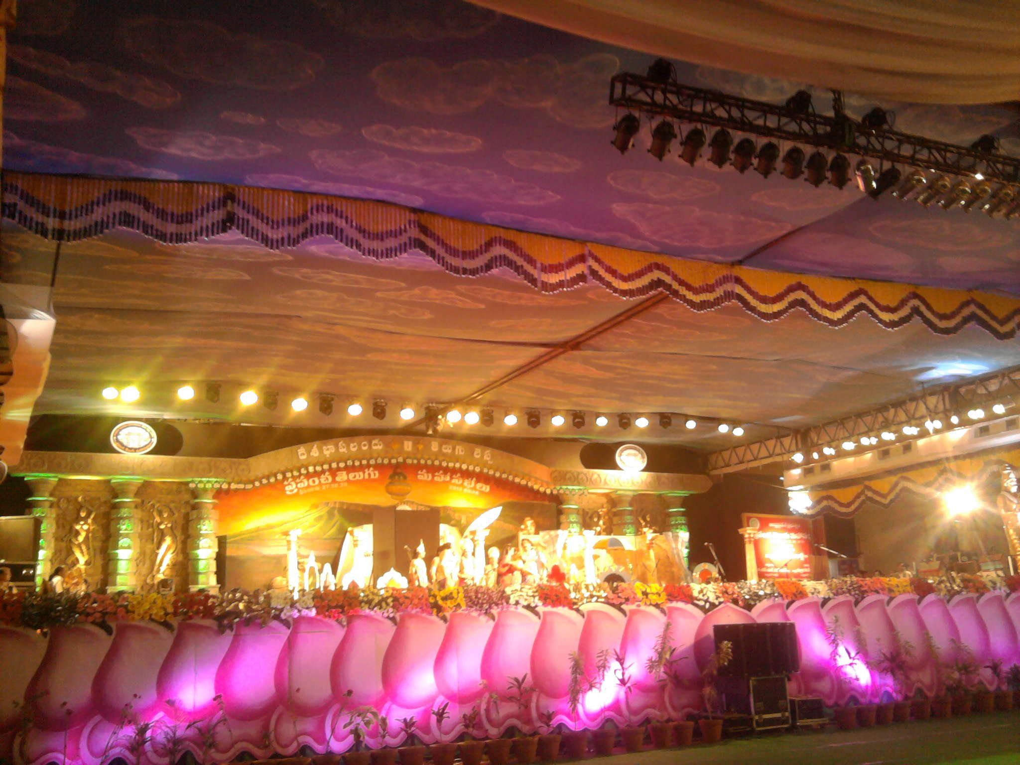 Main stage of fourth World Telugu Conference